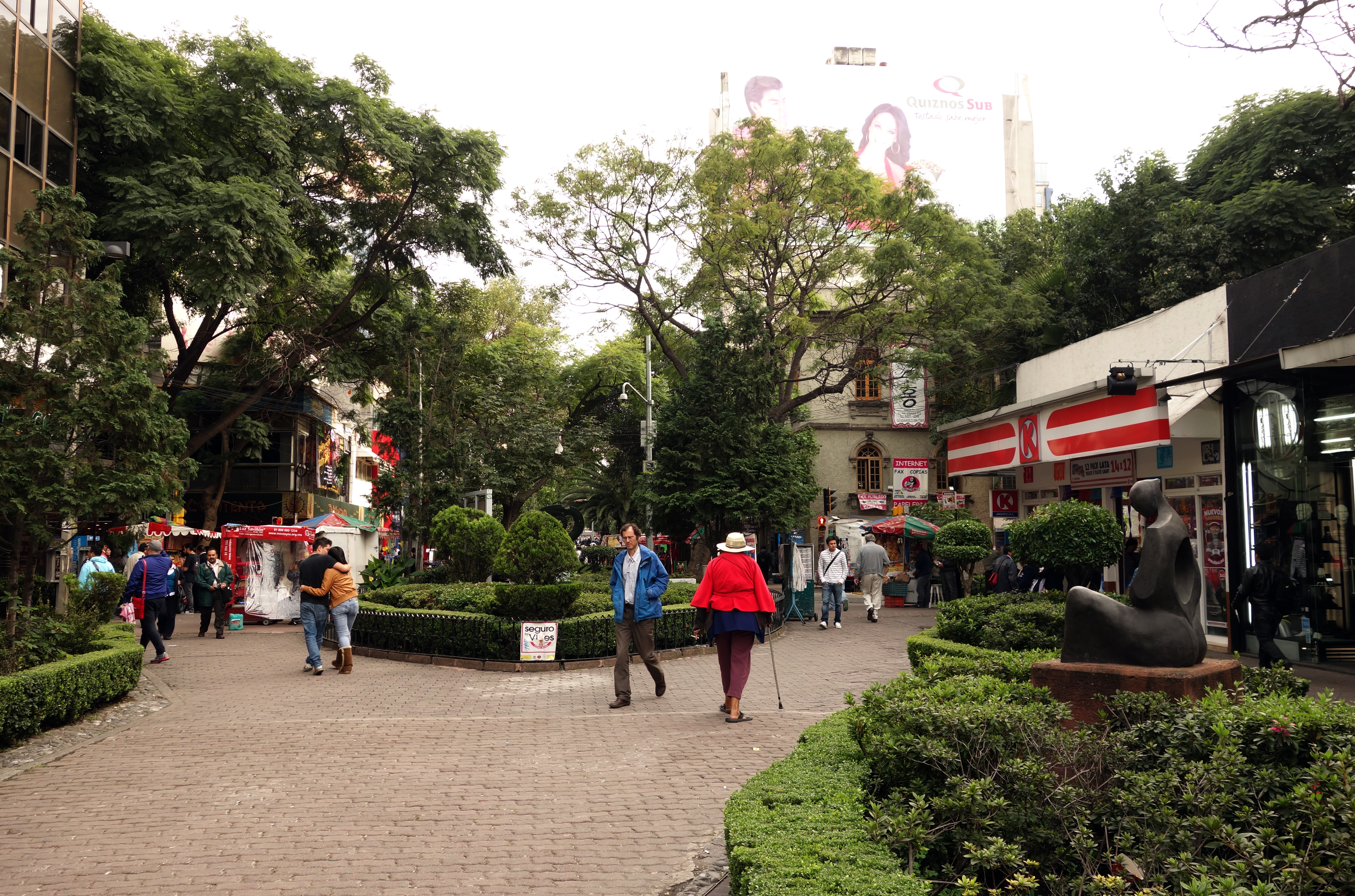 Calle Génova in Zona Rosa, Mexico City